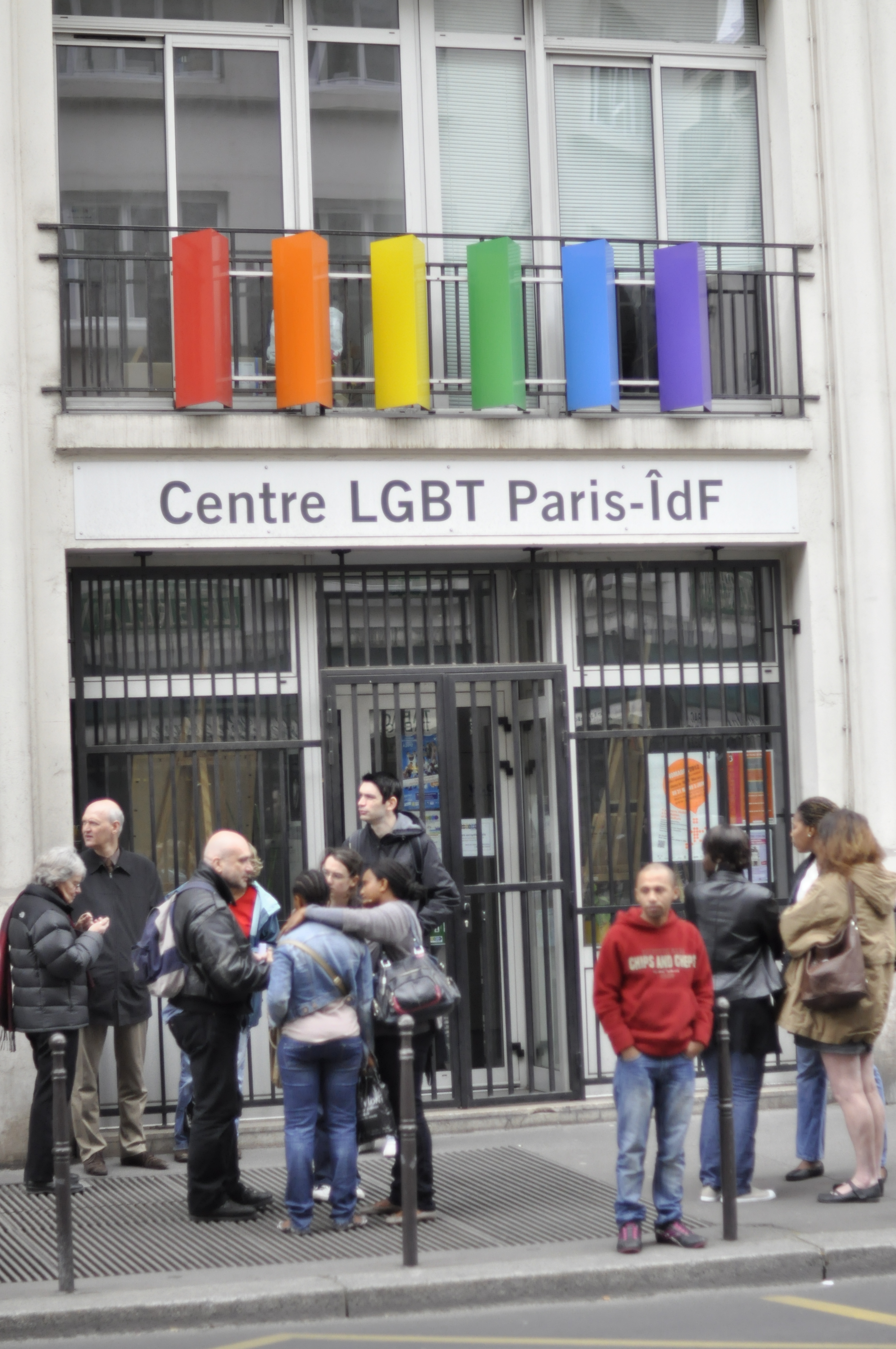 International day against homophobia, biphobia and transphobia in Paris, May 17, 2012.